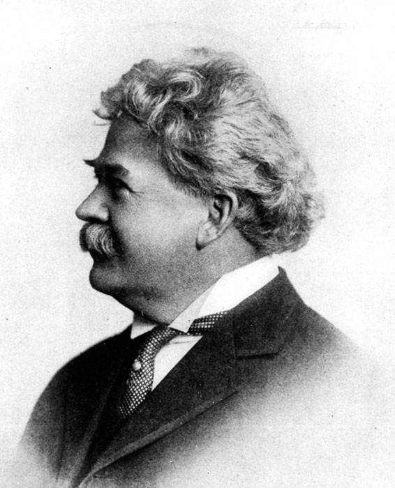 Photo of Frank J. Cannon. U.S. Senator from Utah, 1896–1899. Utah Territorial Delegate from 1895–1896. Apostle in The Church of Jesus Christ of Latter-day Saints and member of its First Presidency.